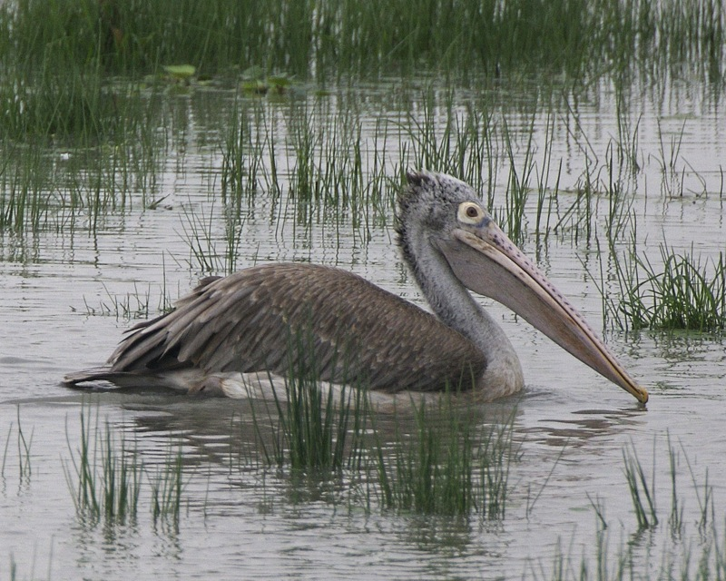 Spot billed pelican Pelecanus philippensis Kazaringa, Assam, India April 15, 2008 690V4062